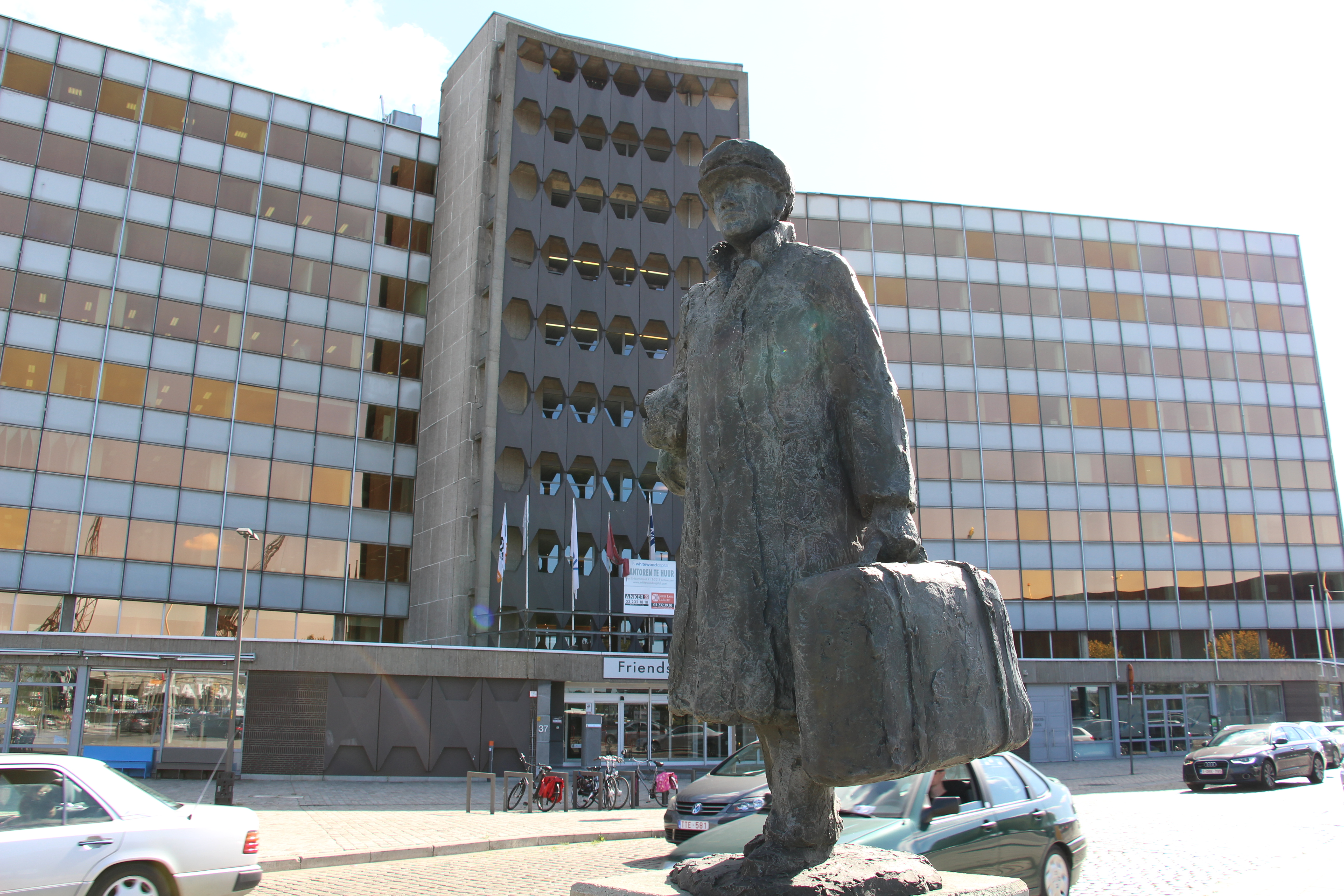 Rijnkaai Dutch sculptor Carla Kamphuis-Meijer sculpture showing the Emigrant near the Red Star Line buildings, 2005-09